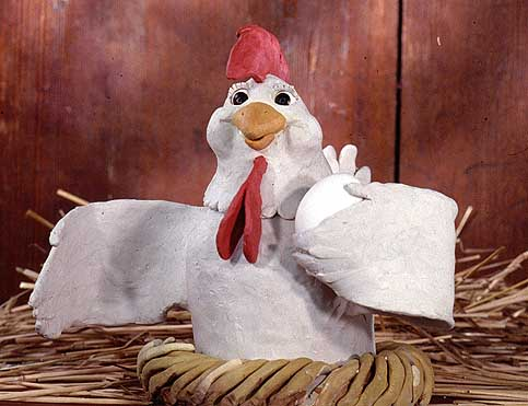 A clay animation scene from a Finnish TV commercial, animated and photographed by J-E Nyström, User:Janke. 20:37, 12 August 2005 Janke 483x371 (28975 bytes) (A clay animation scene from a Finnish TV commercial, animated by J-E Nyström. GFD )